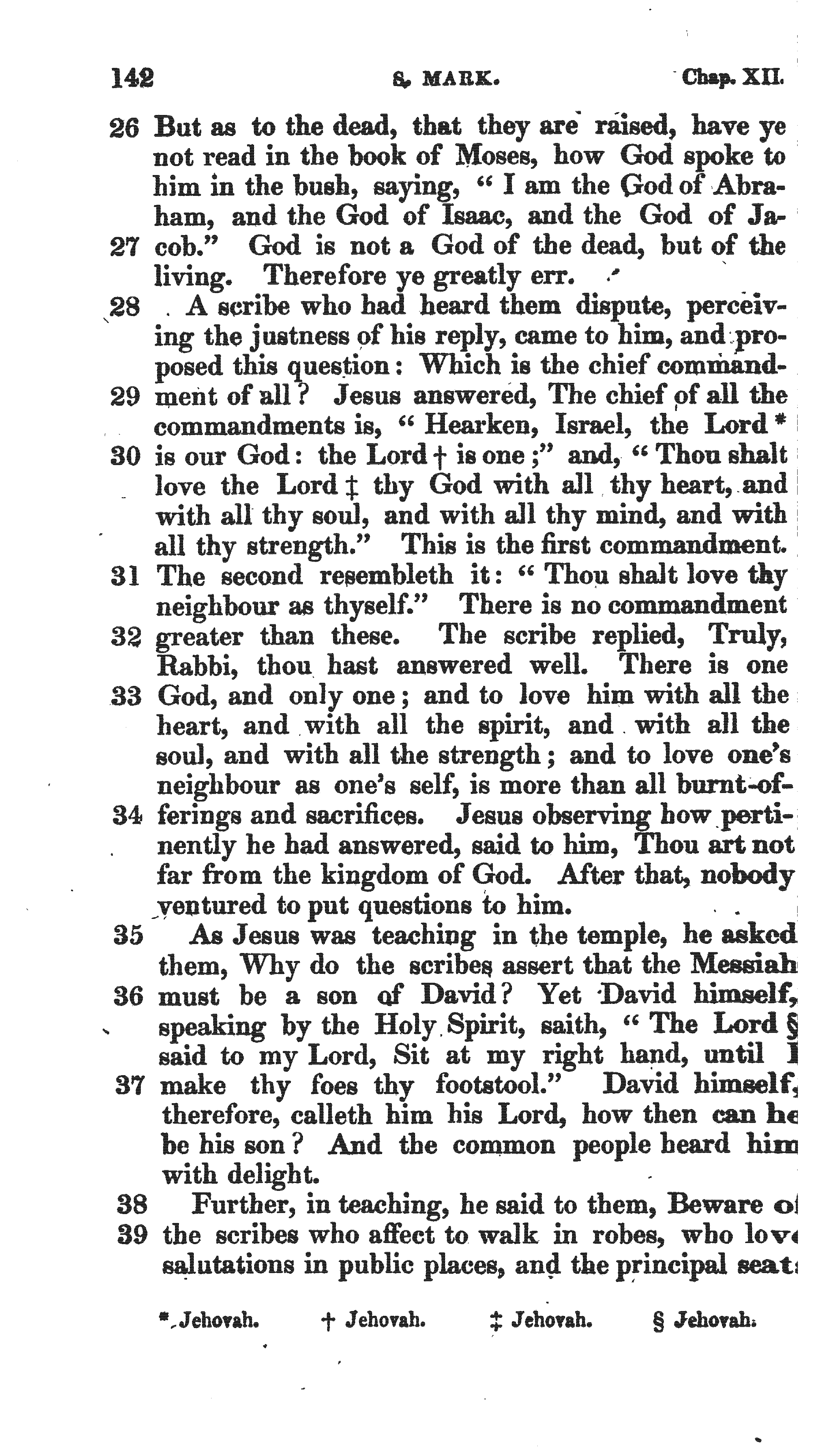 Excerpt from the New Testament [Gospel of Mark, chapter 12] (The New Testament, by George Campbell, Philip Doddridge & James Macknight , publ. 1827). God's name Jehovah is used in the footnotes to clarify the cases that Jehovah is meant by the word "[the] Lord".